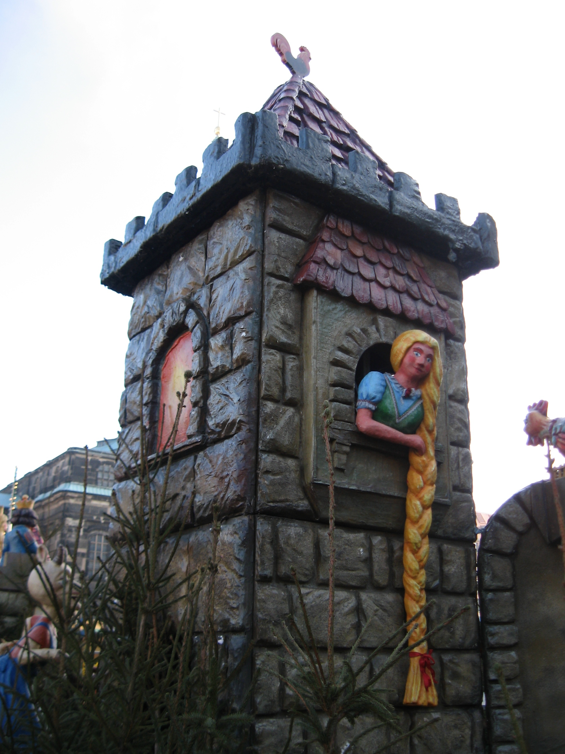 The Old Market of Dresden in Saxony.